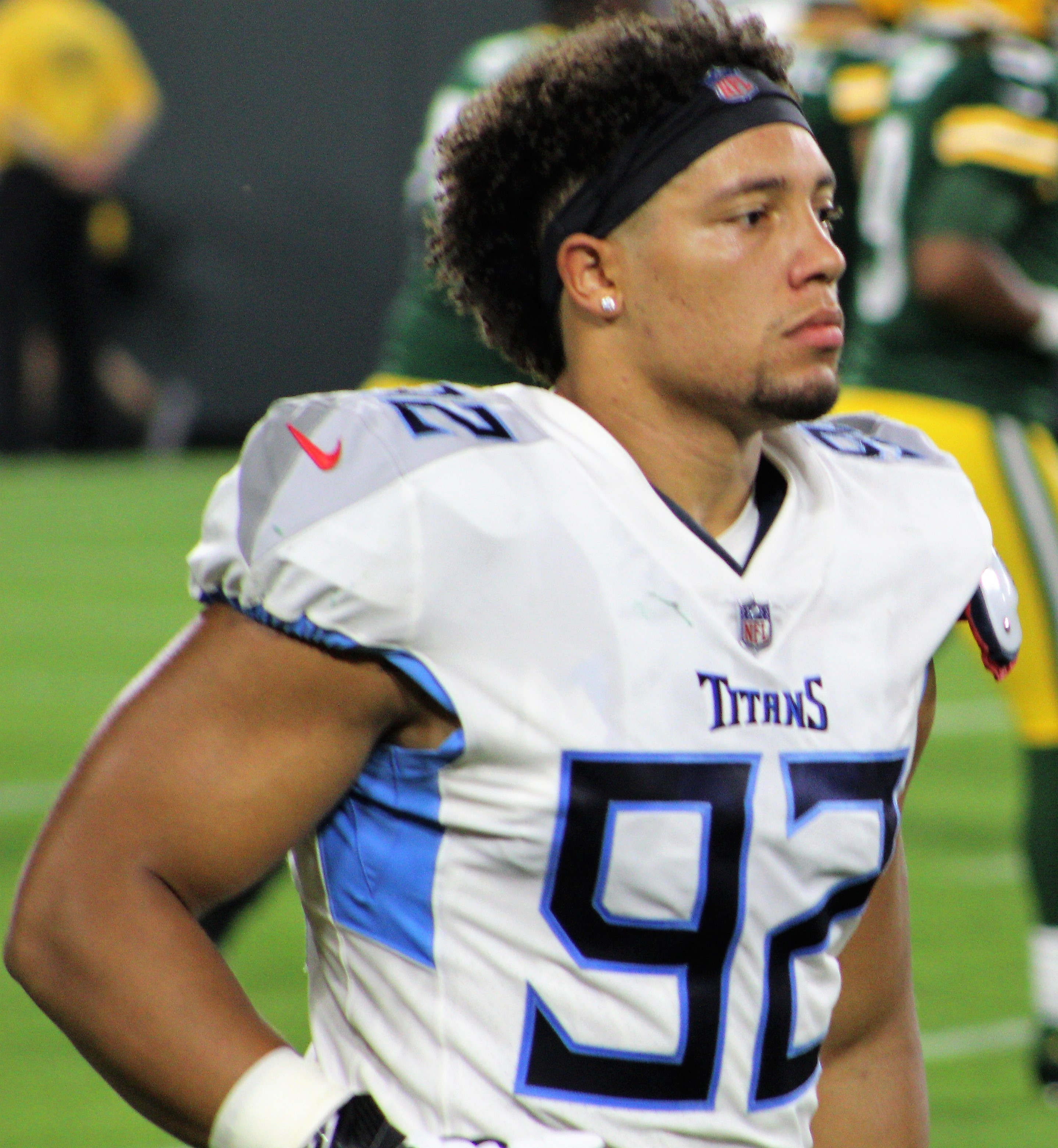 Matt Dickerson, Tennessee Titans at Green Bay Packers (Preseason), August 9, 2018